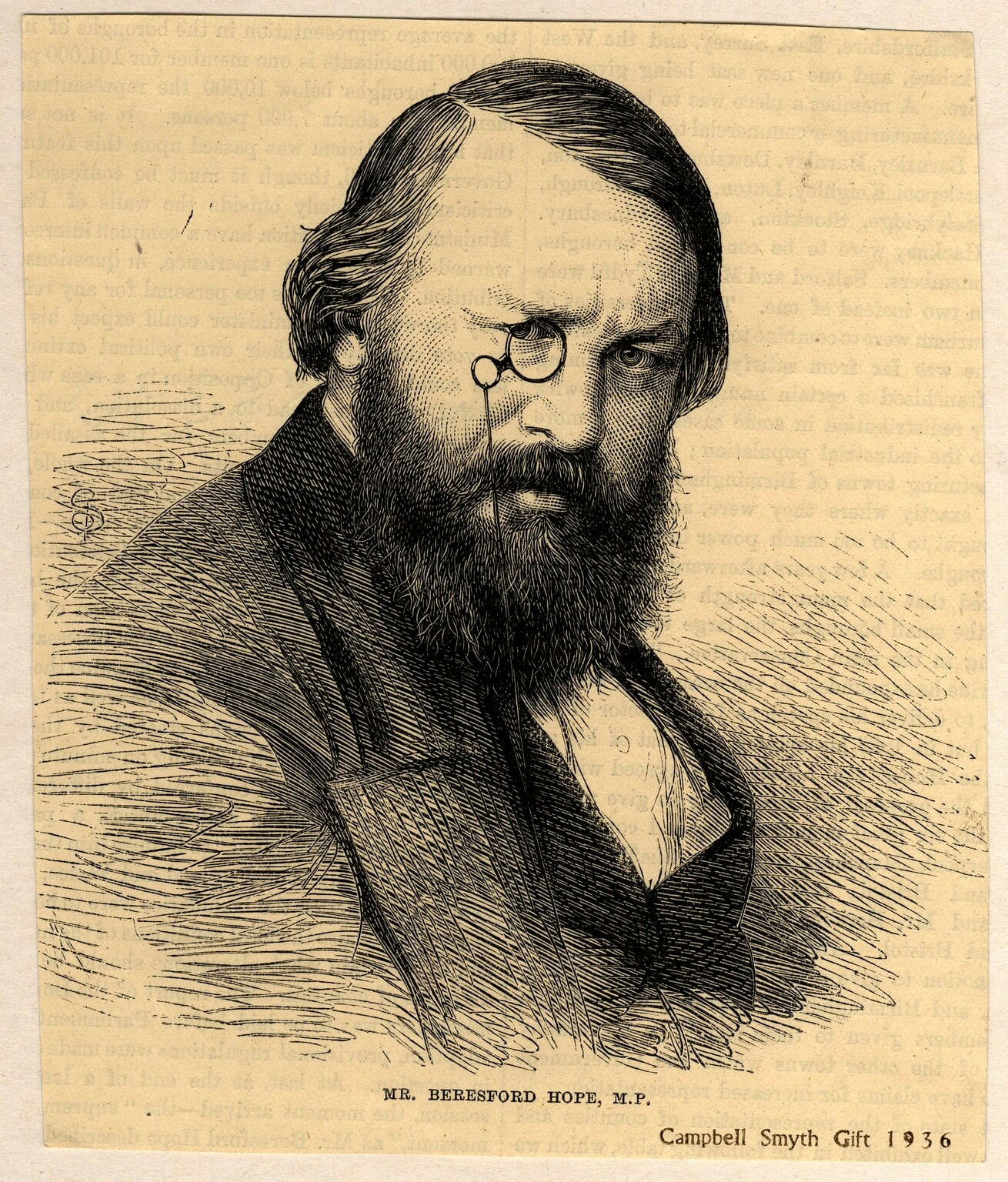 after Henry Hering, photographed in 1856, wood-engraving, mid-19th century